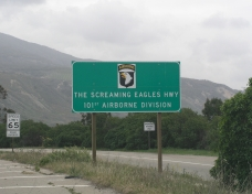 I took this picture! (c) Timothy A McCoy, 2006